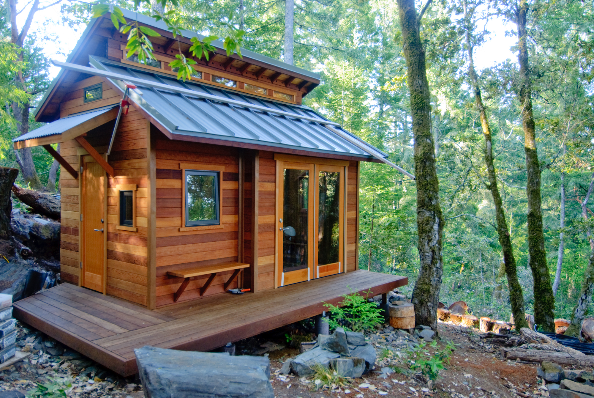 Example of a tiny home, built amidst nature.